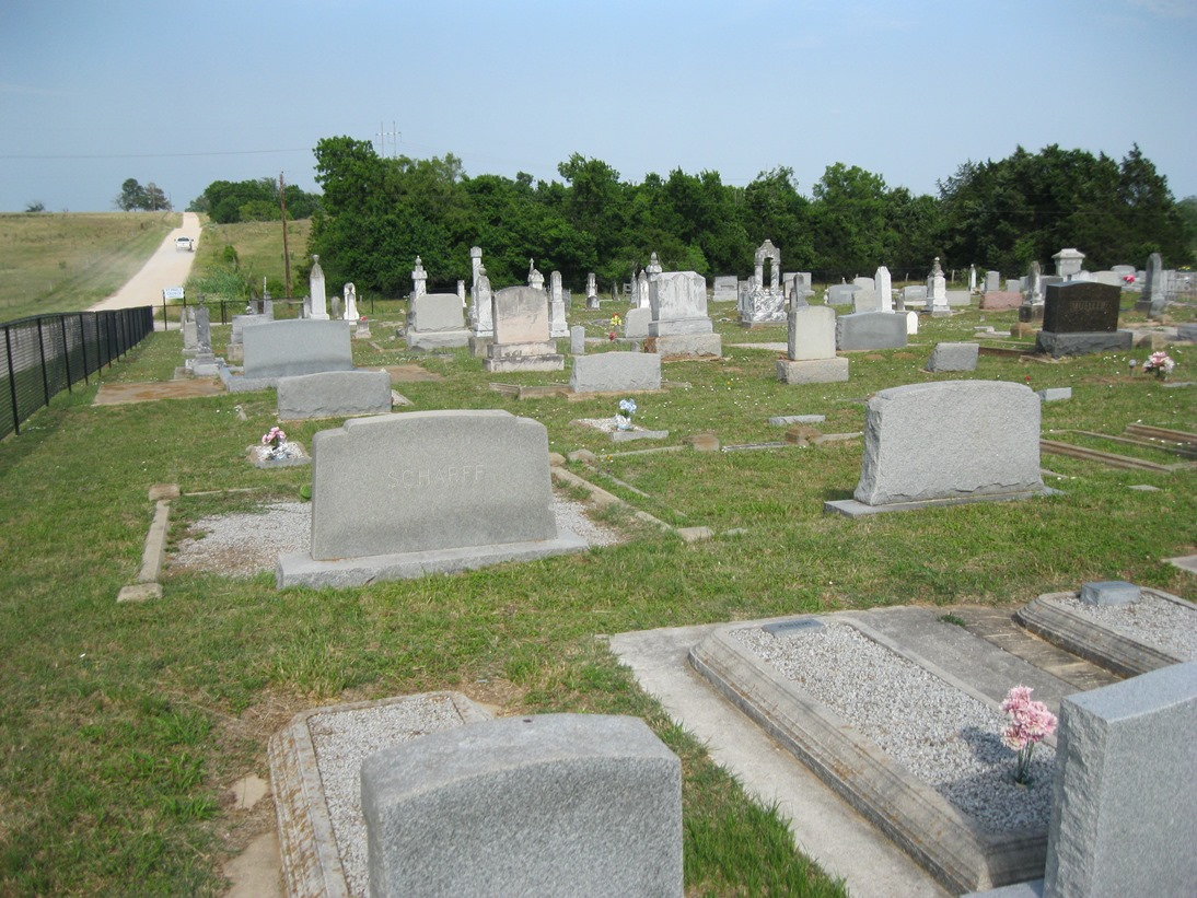 Photo shows the Phillipsburg Cemetery at Phillipsburg Church Road and Sempronius Road, which is seen at left. View is to the east-northeast.